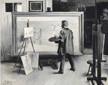 P. S. Krøyer in his studio in the Holckenhus building in Copenhagen, Denmark